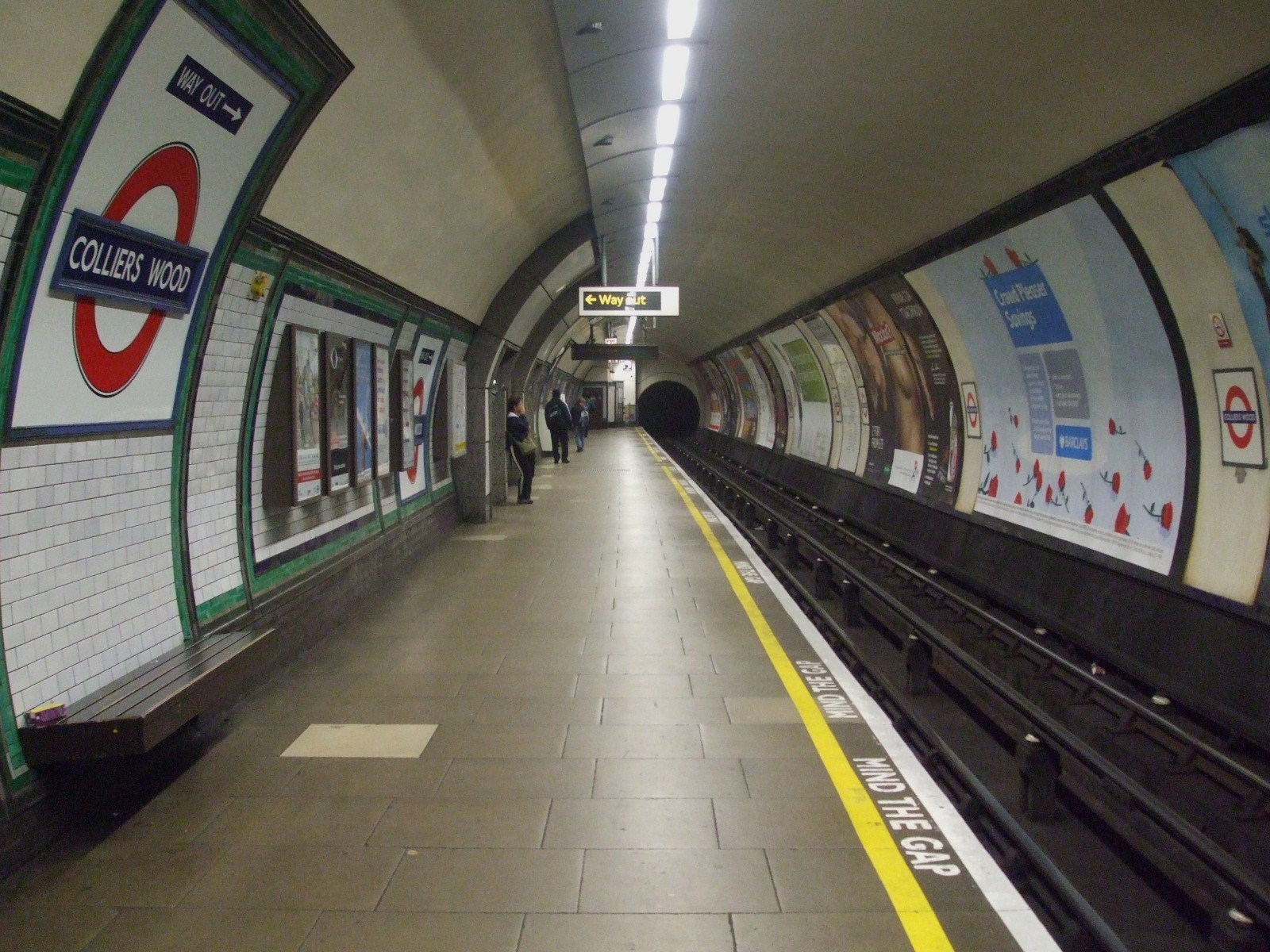 Colliers Wood tube station northbound platform looking south